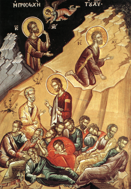 Megala Meteora